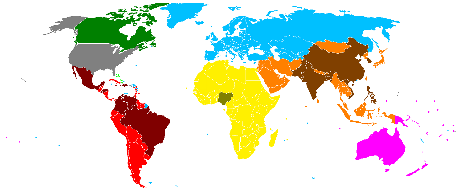 Regions and eligible countries for the United States Diversity Visa lottery. Created from Wikimedia Commons' blank world map. EligibleIneligible North America Mexico, Central and South America, and the Caribbean Europe Africa Asia Oceania United States and its territories